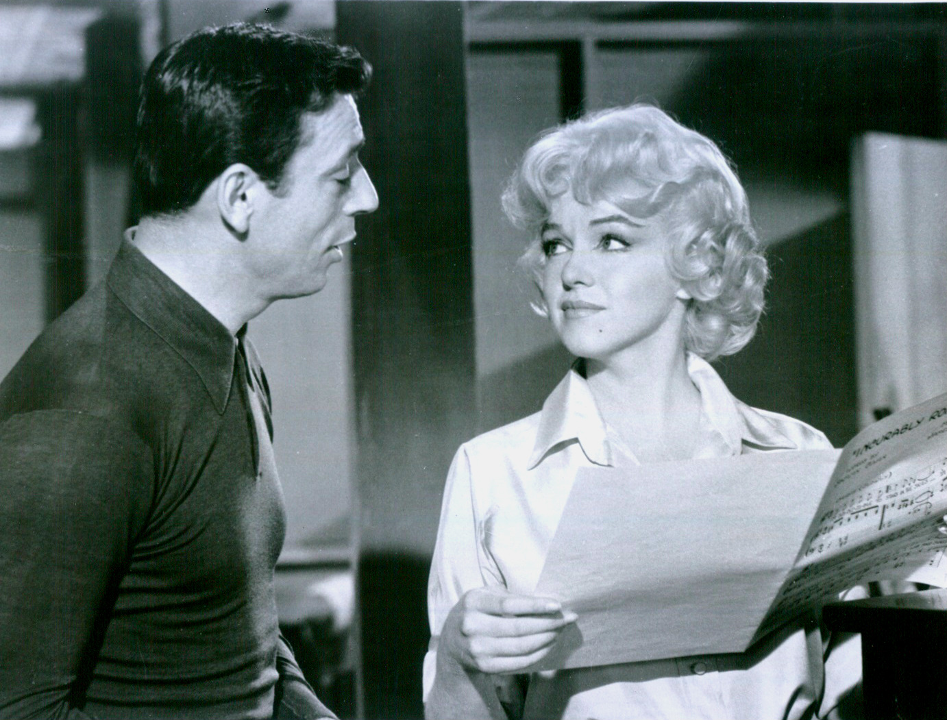 Photo of Yves Montand and Marilyn Monroe from the 1960 film Let's Make Love.